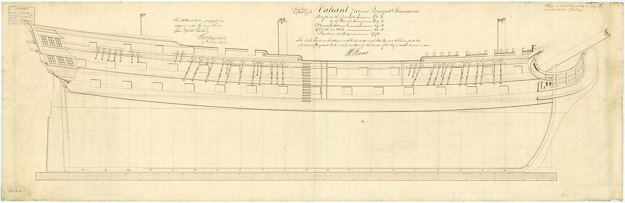 Valiant (1759) Scale: 1:48. Plan showing the sheer lines proposed (and approved) for repairing the Valiant (1759), a 74-gun Third Rate, two-decker. The plan indicates her 'as built' in ticked lines. Signed by John Williams [Surveyor of the Navy, 1765-1784]. NMM, Progress Book, volume 5, folio 83 states that 'Valiant' (1759) was docked at Portsmouth Dockyard on 8 October 1771 and undocked on 1 April 1775 having undergone a "large repair" costing £36,279.10.10 VALIANT 1759